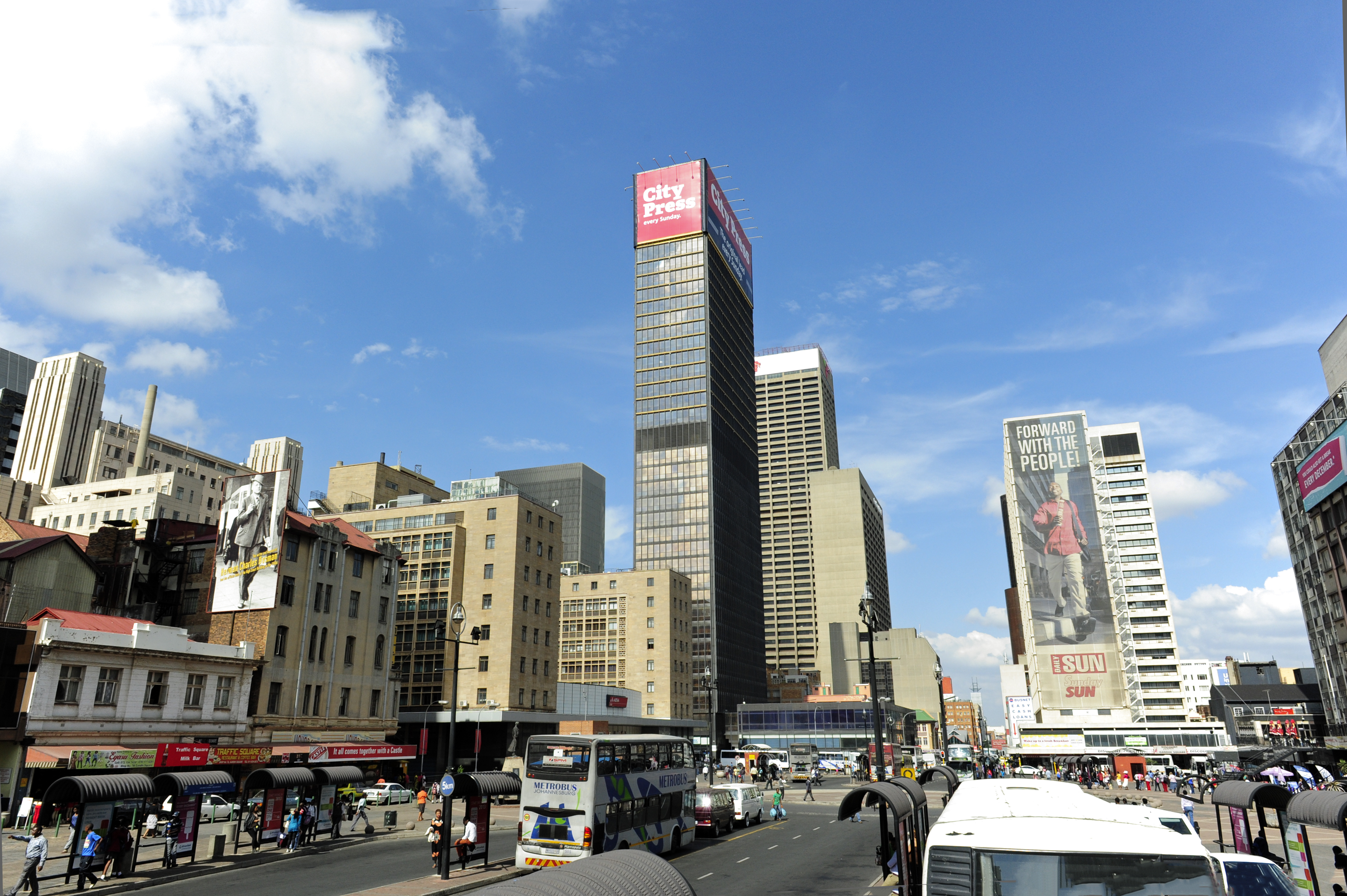 Downtown of Johannesburg, South África.